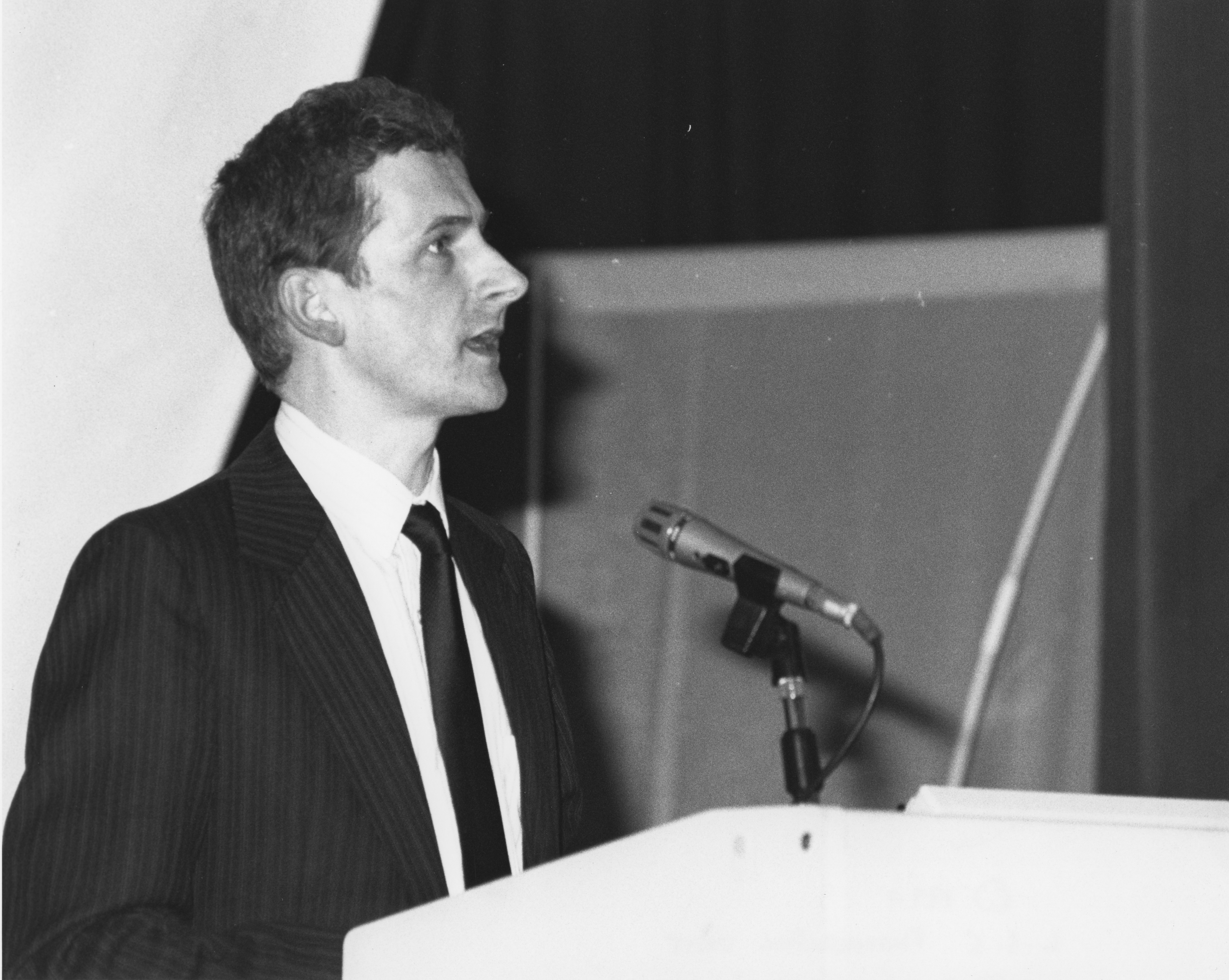 16th January 1990, Old Theatre, Christopher Hood, Department of Public Administration and Public Policy. Inaugural lecture; Beyond the Public Bureaucracy State? Public Administration in the 1990s IMAGELIBRARY/94 Persistent URL